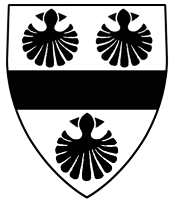 Coat of arms Geoffrey de Langley, english ambassador of the 13th century